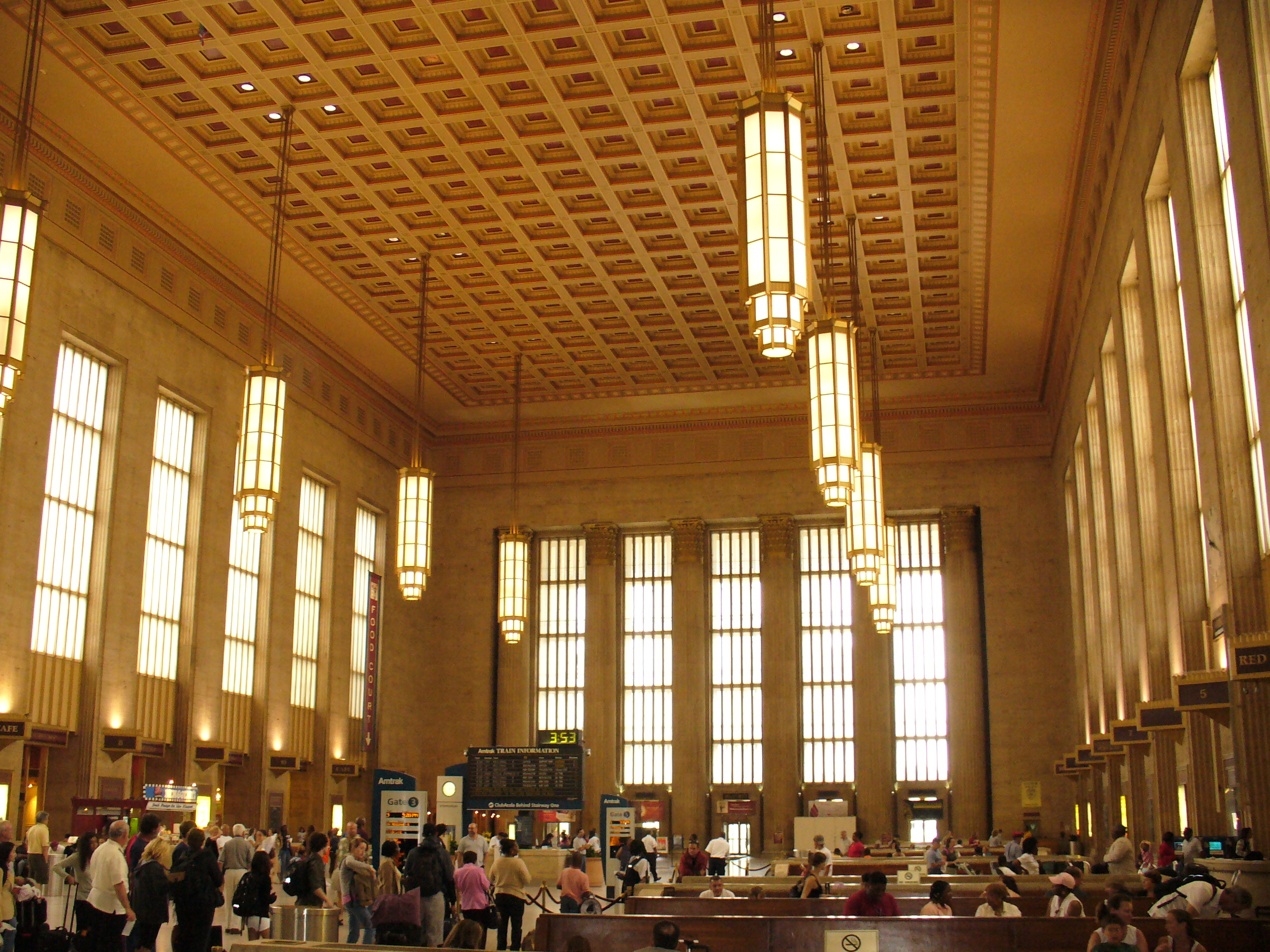 30th Street Station, Philly